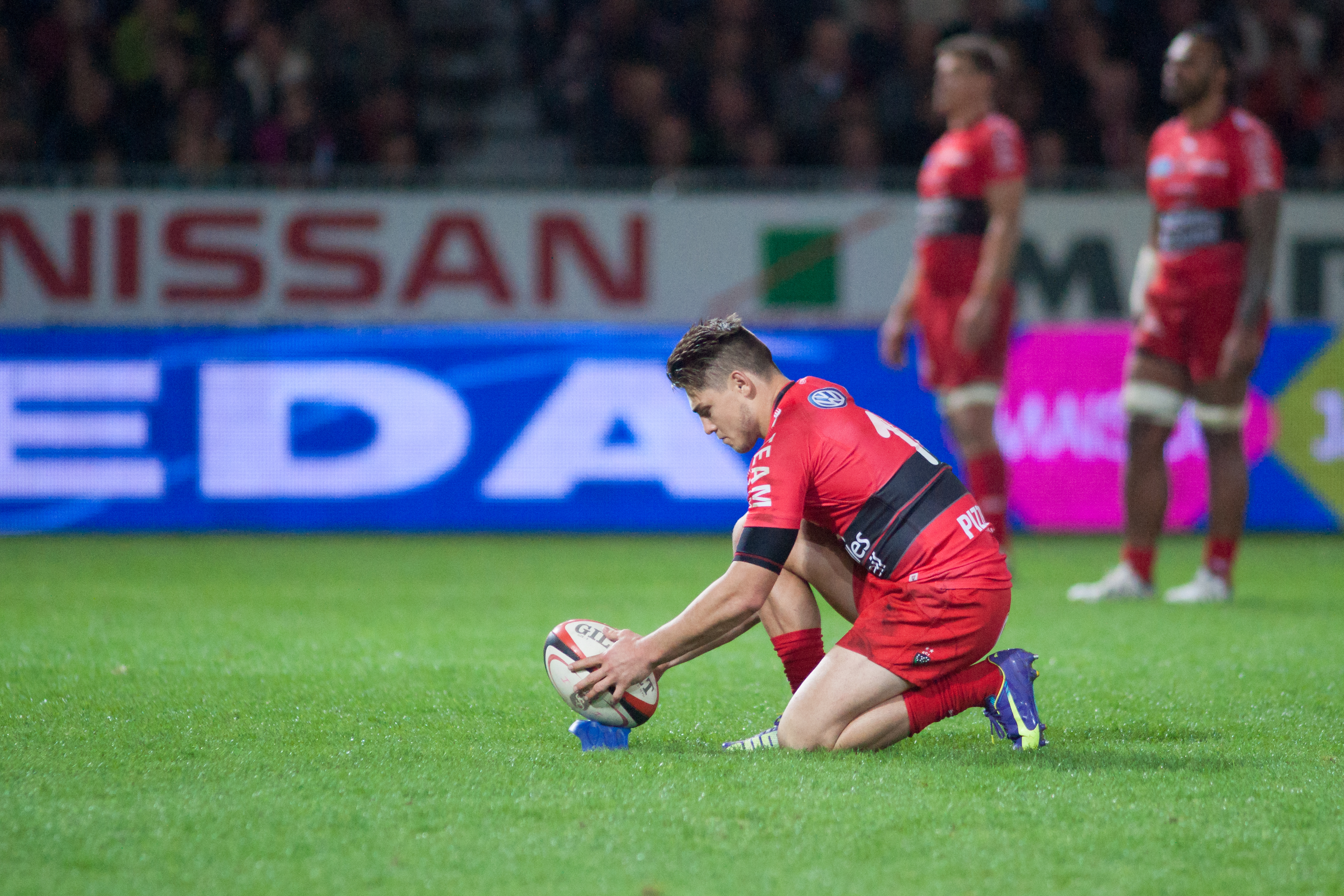 The making of this document was supported by Wikimedia CH. (Submit your project!) For all the files concerned, please see the category Supported by Wikimedia CH. US Oyonnax vs. Rugby Club Toulonnais, 3rd October 2014